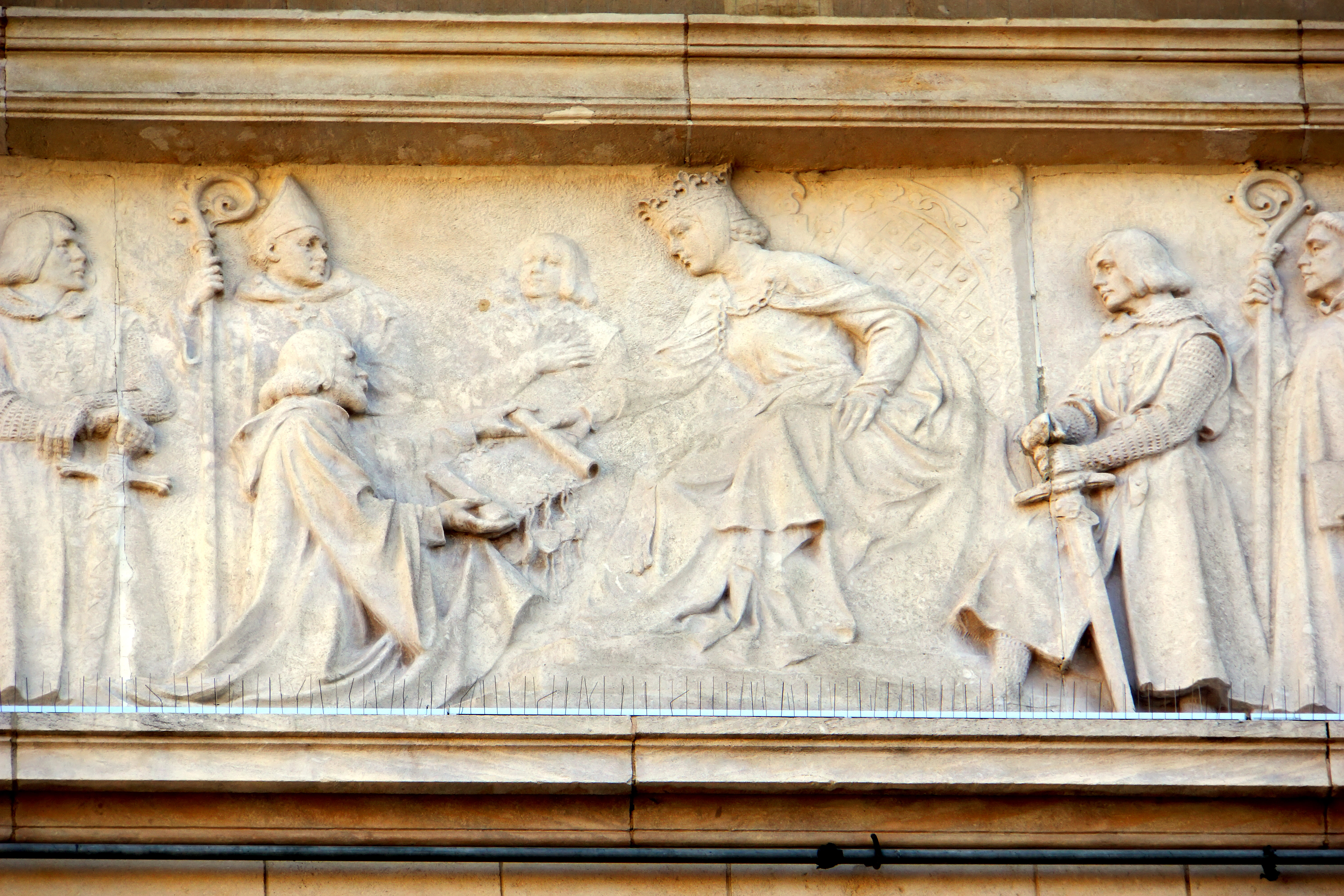 PLEASE, NO invitations or self promotions, THEY WILL BE DELETED. My photos are FREE to use, just give me credit and it would be nice if you let me know, thanks. The Cercle Municipal оr Cercle-Cité іn Luxembourg City. Іt іs located аt the eastern end оf the Place d'Armes, іn the historic central Ville Haute quarter оf the city. The administration started to move into the neo-baroque building in 1909 but the official inauguration was in 1910. On the front, above the balcony, is a frieze depicting the granting of the city charter to Luxembourg City in 1244.